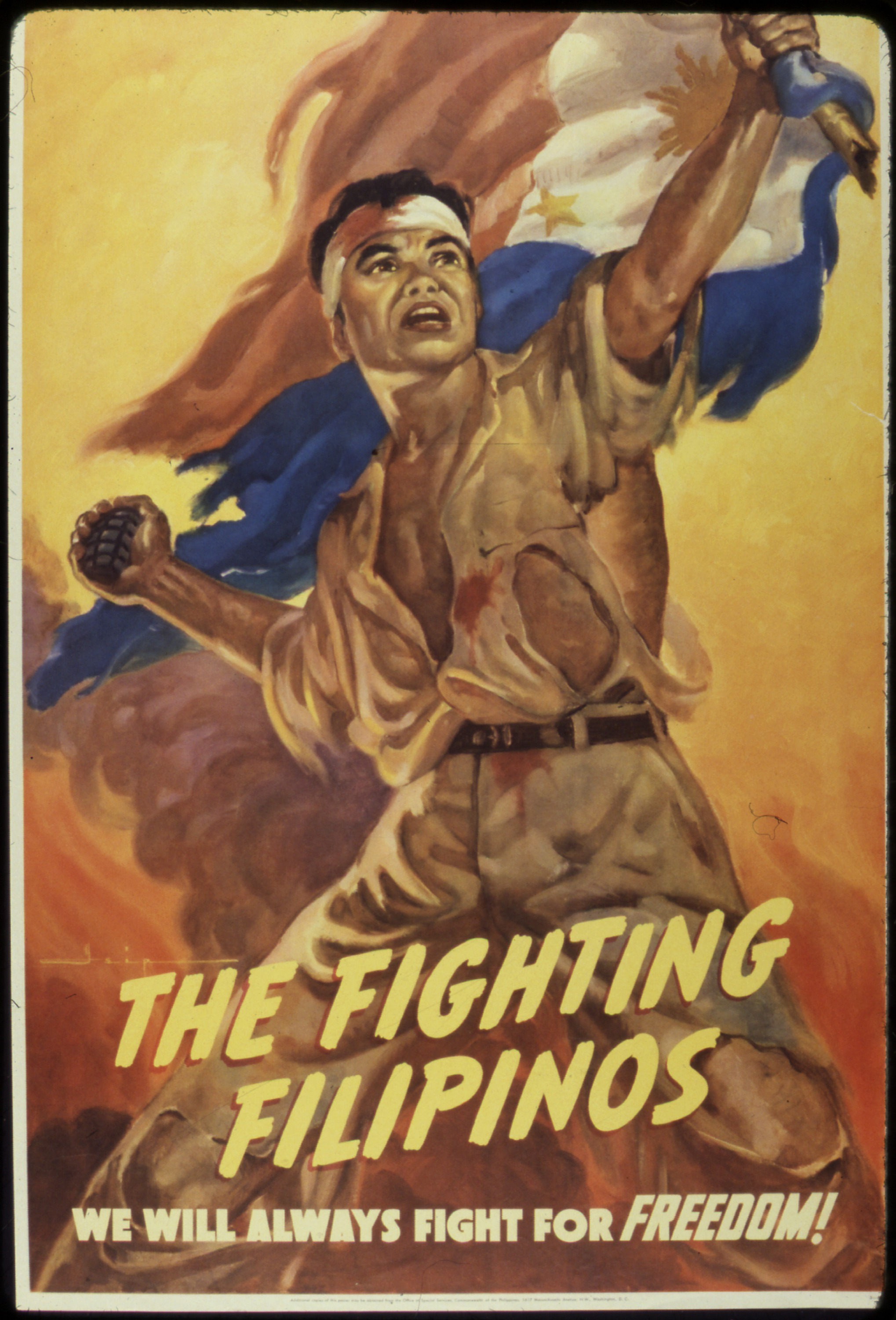 General notes: Use War and Conflict Number 766 when ordering a reproduction or requesting information about this image.